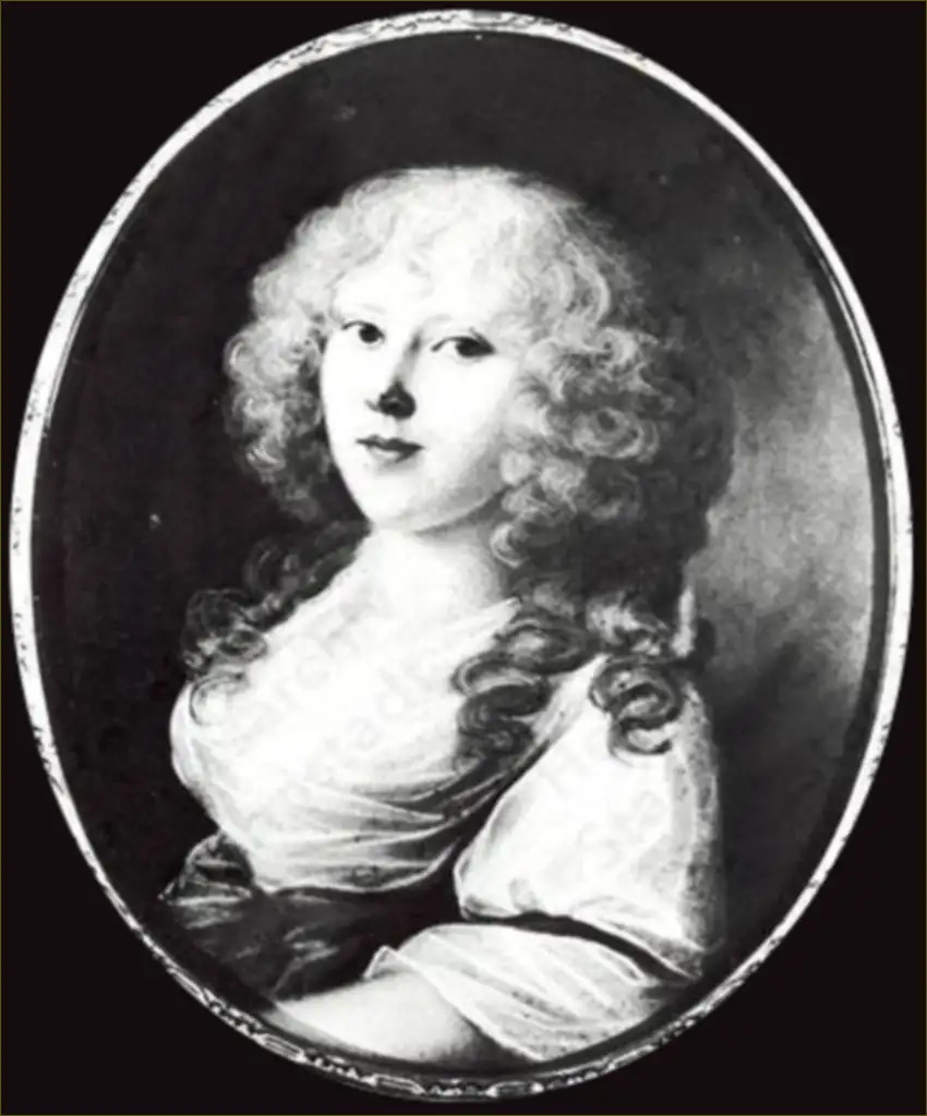 Portrait of Landgravine Auguste of Hesse-Homburg (1776-1871), Grand Duchess of Mecklenburg-Schwerin